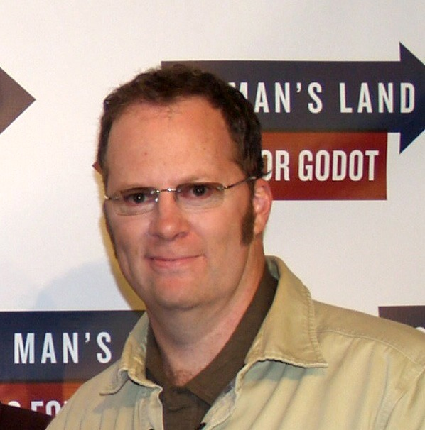 Actor Shuler Hensley at a September 24, 2013 press junket at Sardi's restaurant in Manhattan's theater district for the Broadway shows Waiting for Godot and No Man's Land. This photo was created by Luigi Novi. It is not in the public domain, and use of this file outside of the licensing terms is a copyright violation.